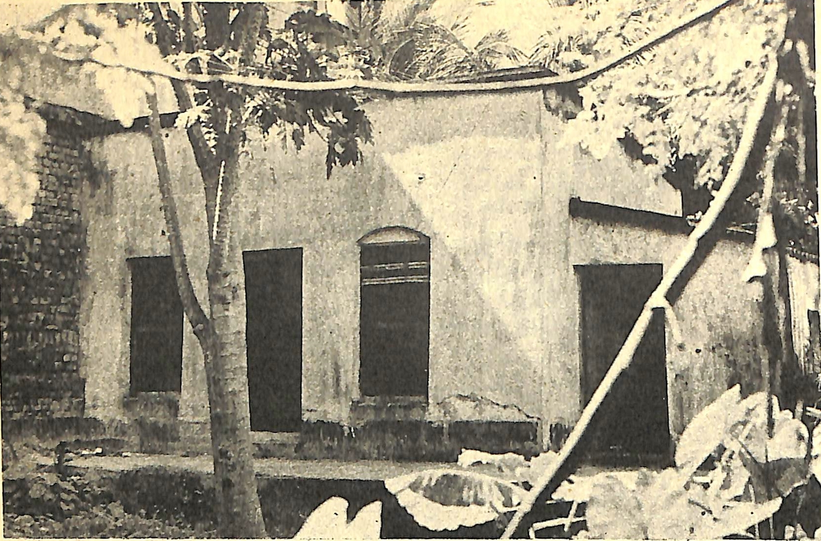 Sarat Chandra Chattopadhyay's birth place in Debanandapur